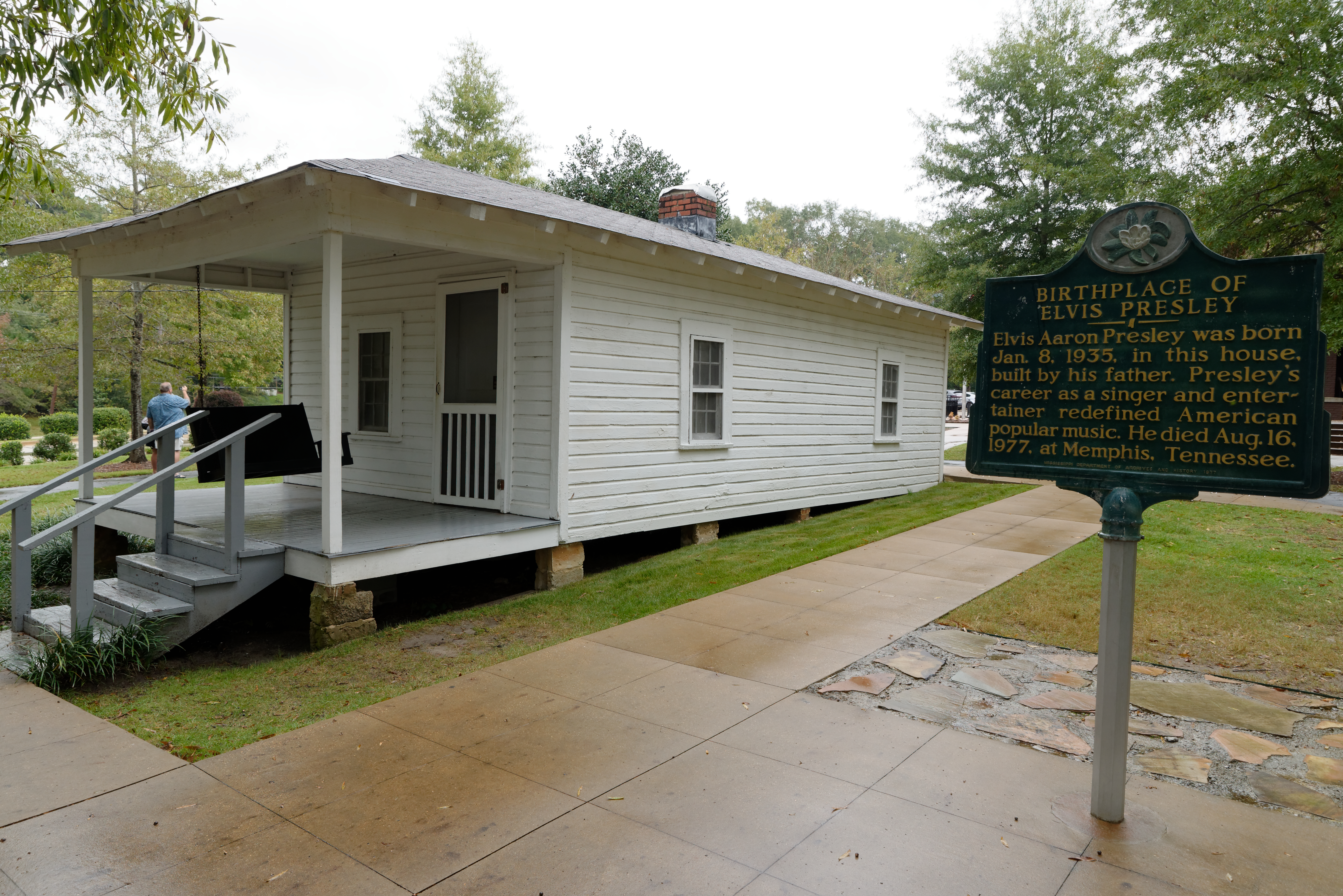 Elvis Presley Birthplace, Tupelo, Mississippi, U.S.